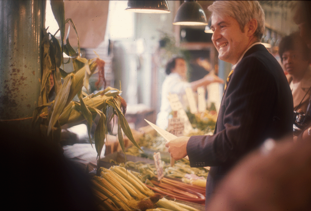 Wes Uhlman Seattle's mayor from 1969 through 1977. Item 36724, Pike Place Market Visual Images and Audiotapes (Record Series 1628-02), Seattle Municipal Archives.